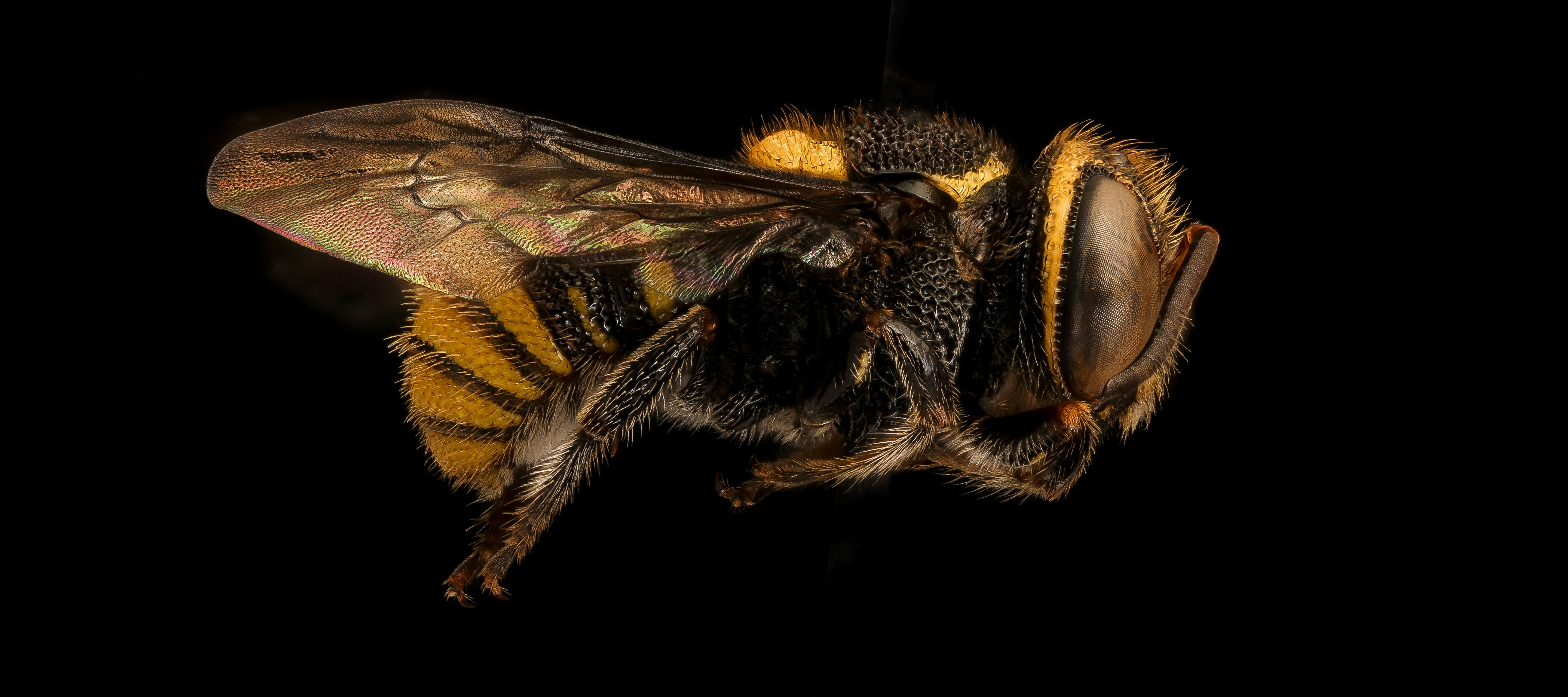 Anthodioctes calcaratus. A small bee from La Cruz, Costa Rica. Collected by Tim Mcmahon on one of his several bee trips to that country. I can't scrounge up much about these hole nesters from Central and South America, but likely there are Brazilian papers out on the topic.